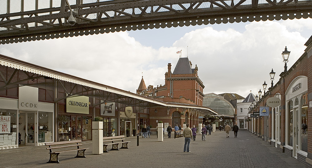 Windsor & Eton Central Railway Station refashioned as a Shopping Centre Source: WyrdLight